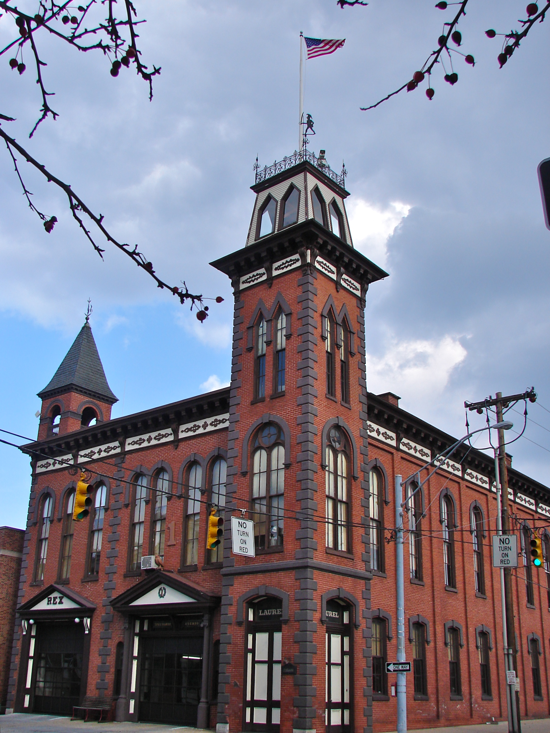 Laurel-Rex Fire Company House on the NRHP since October 8, 1976. On South Duke Street (a couple of blocks from Market Street) , York, York County, Pennsylvania.